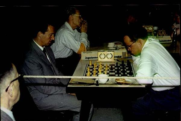 Max Euwe, Svetozar Gligoric - Luděk Pachman, European Team Championship, Oberhausen 1961, Photo von Gerhard Hund.